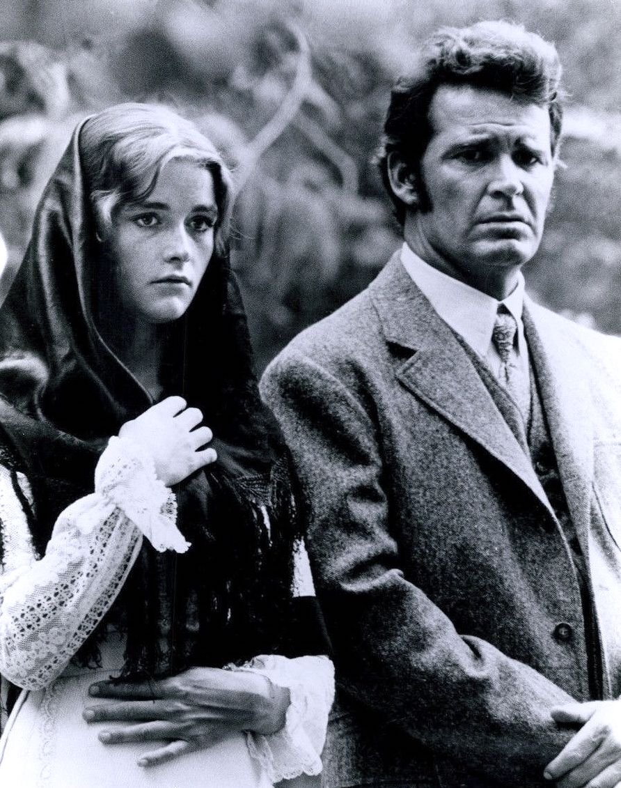 James Garner and Margot Kidder in Nichols (1971)